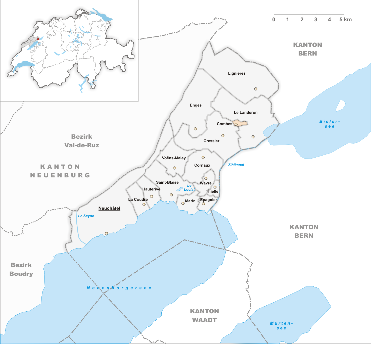 Municipality Combes Artist: Tschubby